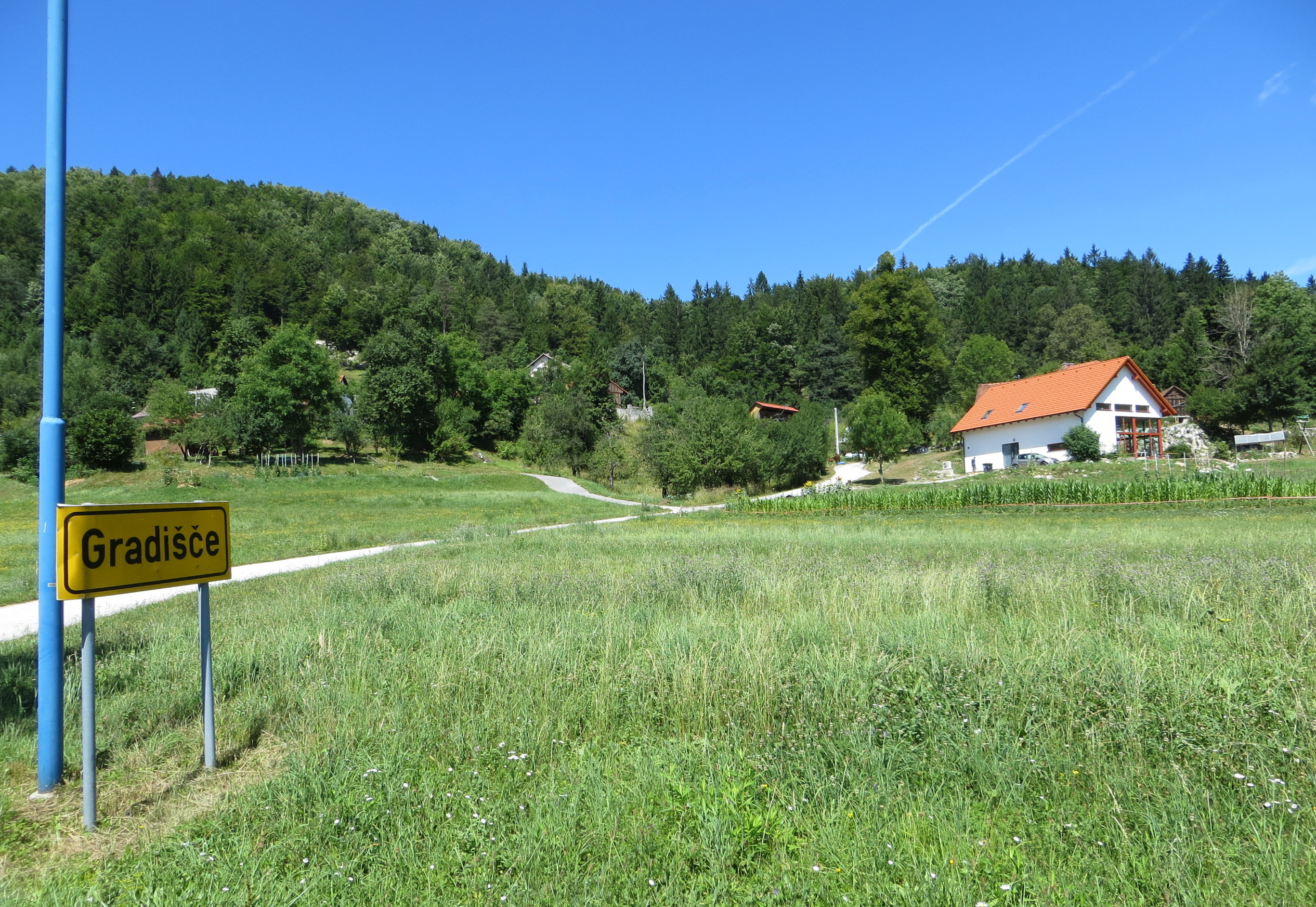 Gradišče, Municipality of Velike Lašče, Slovenia